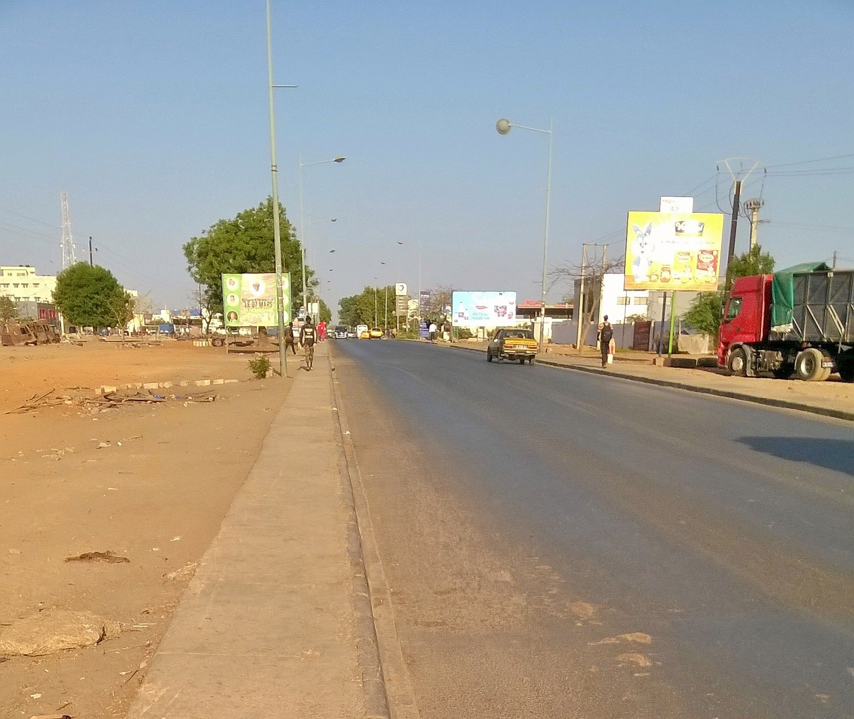 This road is the most used in Senegal in inter-urban transport because it reads the two most populated cities of this country. But with the presence of COVID-19 in the country, the field of the transport is near that stagnated.